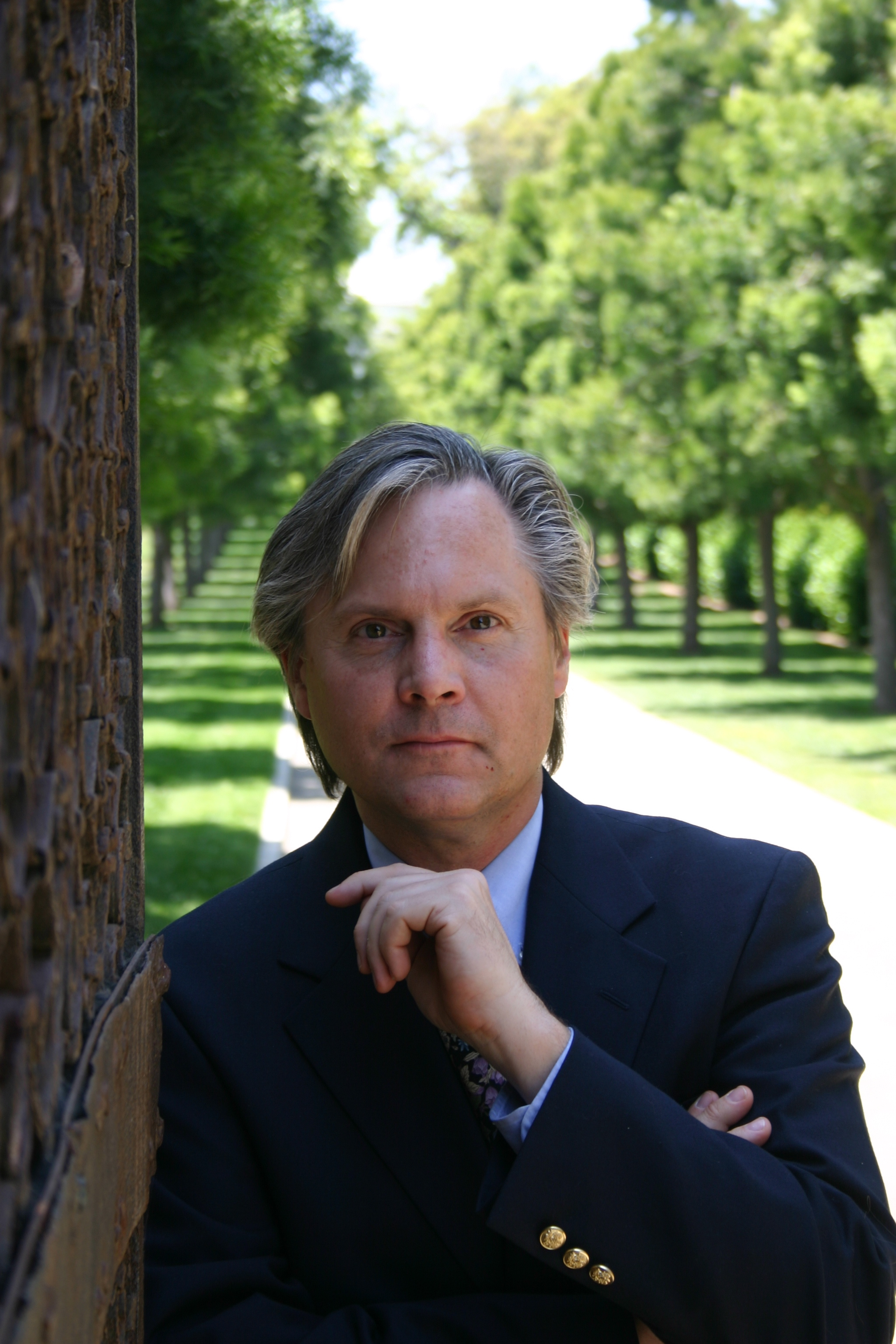 author photos